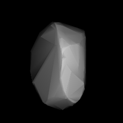 3D convex shape model of 2111 Tselina, computed using light curve inversion techniques. J. Hanuš, J. Ďurech, M. Brož, B. D. Warner (June 2011). "A study of asteroid pole-latitude distribution based on an extended set of shape models derived by the lightcurve inversion method". Astronomy and Astrophysics 530: A134. ISSN 0004-6361. arXiv